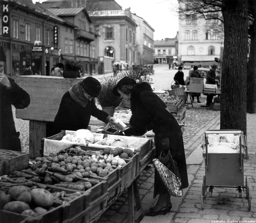 The street "Engelbrektsgatan", Örebro, Sweden